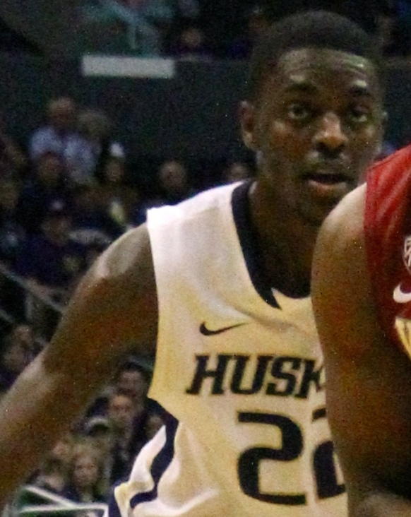 University of Washington basketball player Justin Holiday at the 2011 Pac-10 Tournament.